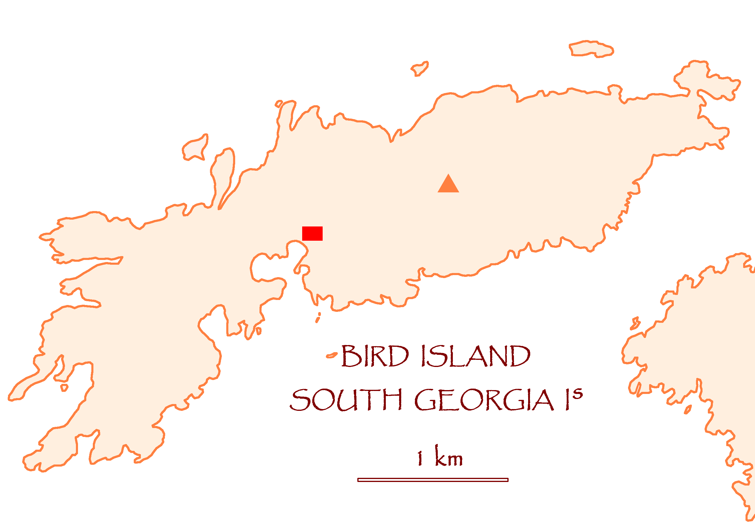 Map of Bird Island, South Georgia Islands